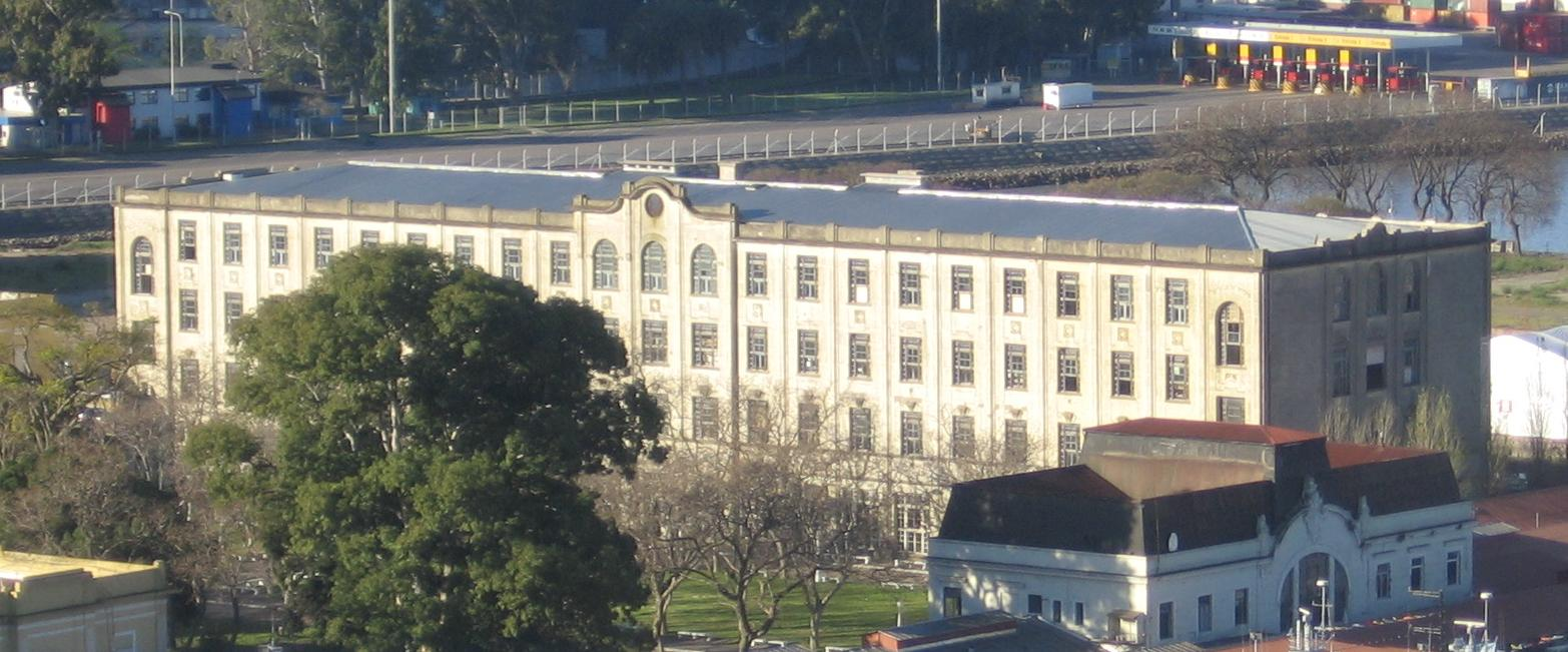 Former Immigrants Hotel in the port of Buenos Aires, Argentina, currently immigration museum